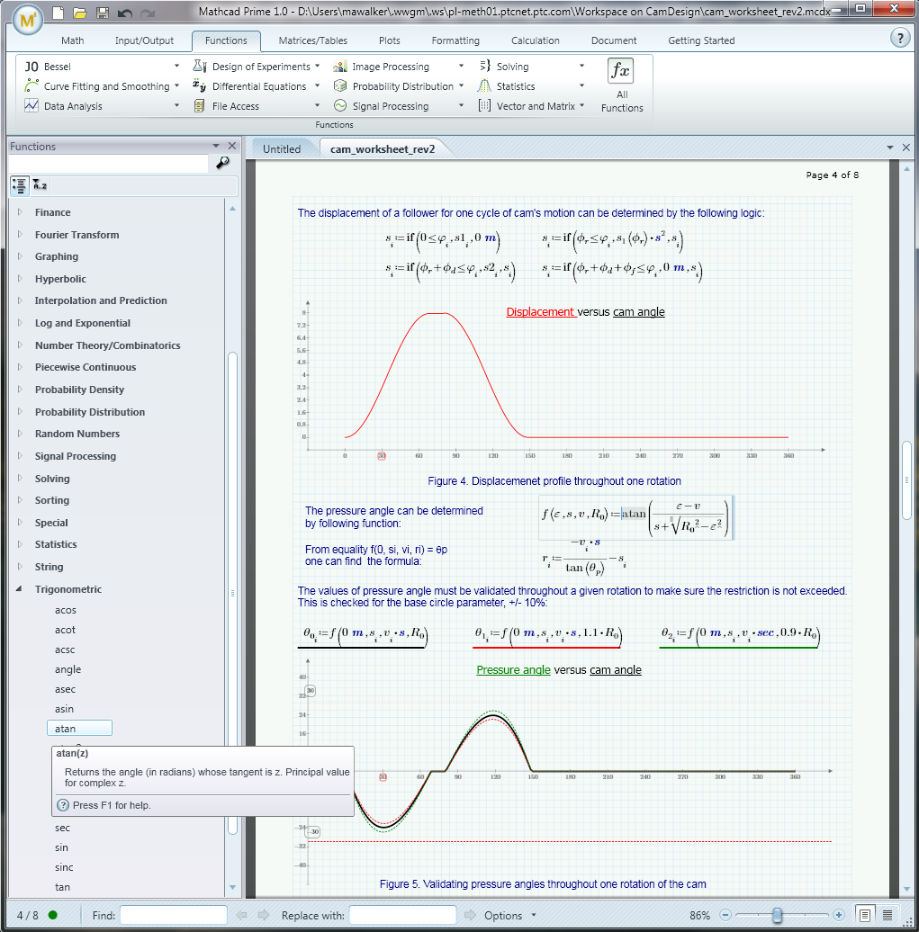 Screen capture of a typical working session inside Mathcad Prime 1.0